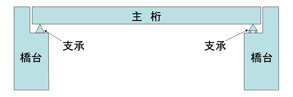 An illustration of a girder bridge with Japanese characters.